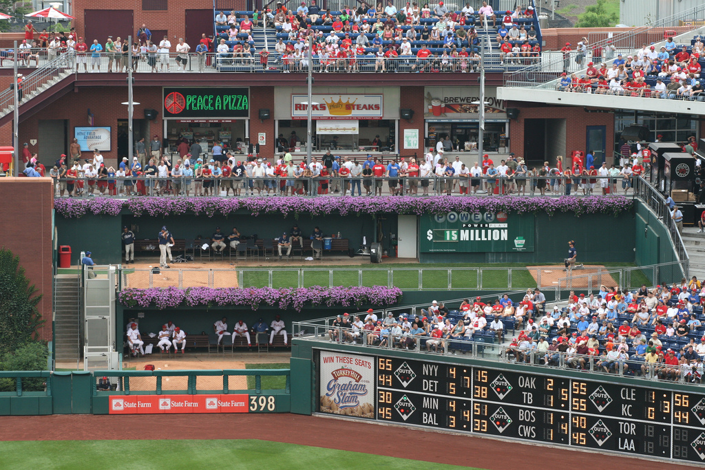 relief pitcher warms up in the Citizens Bank Park bullpen